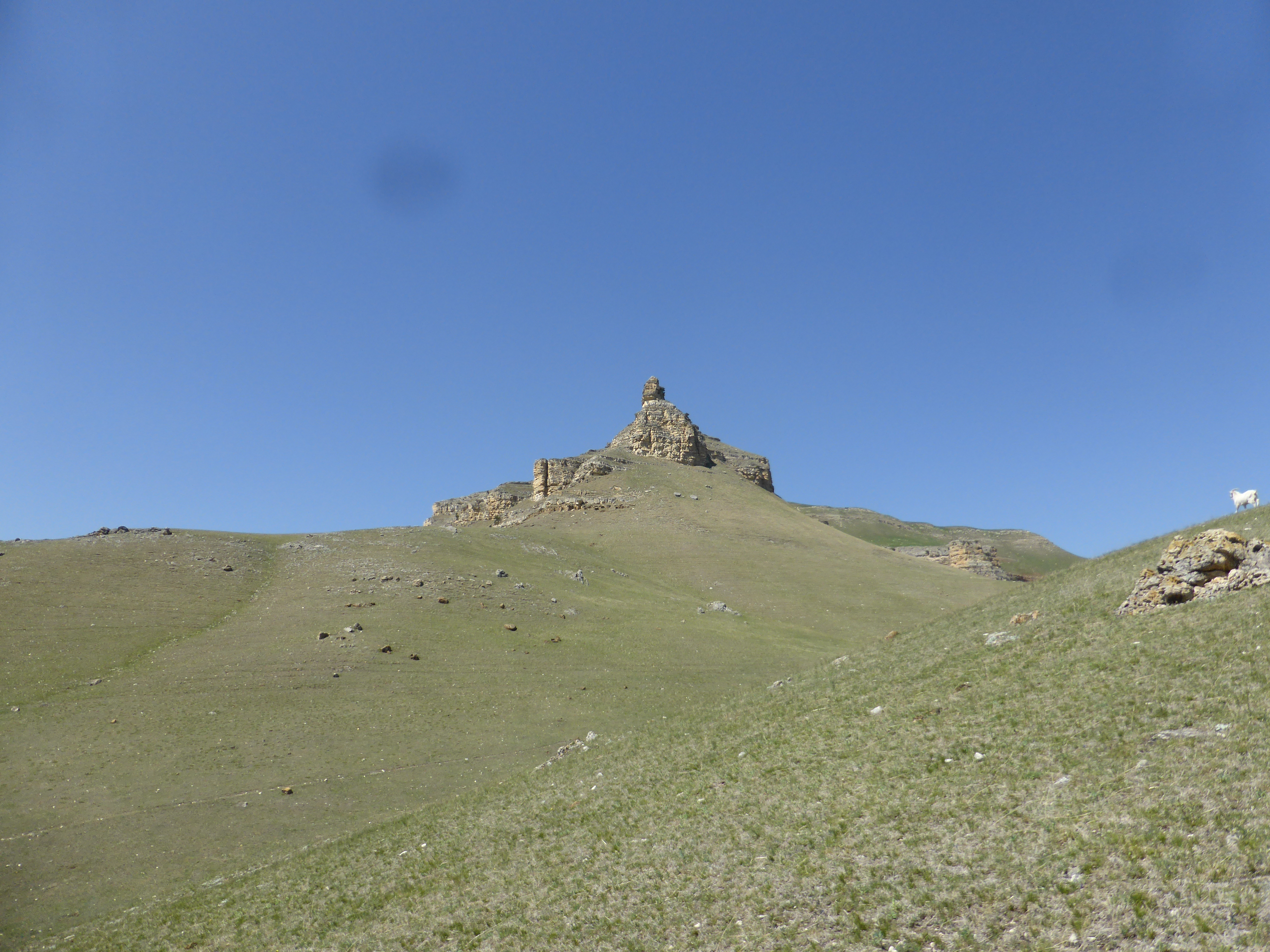 Rock Gap